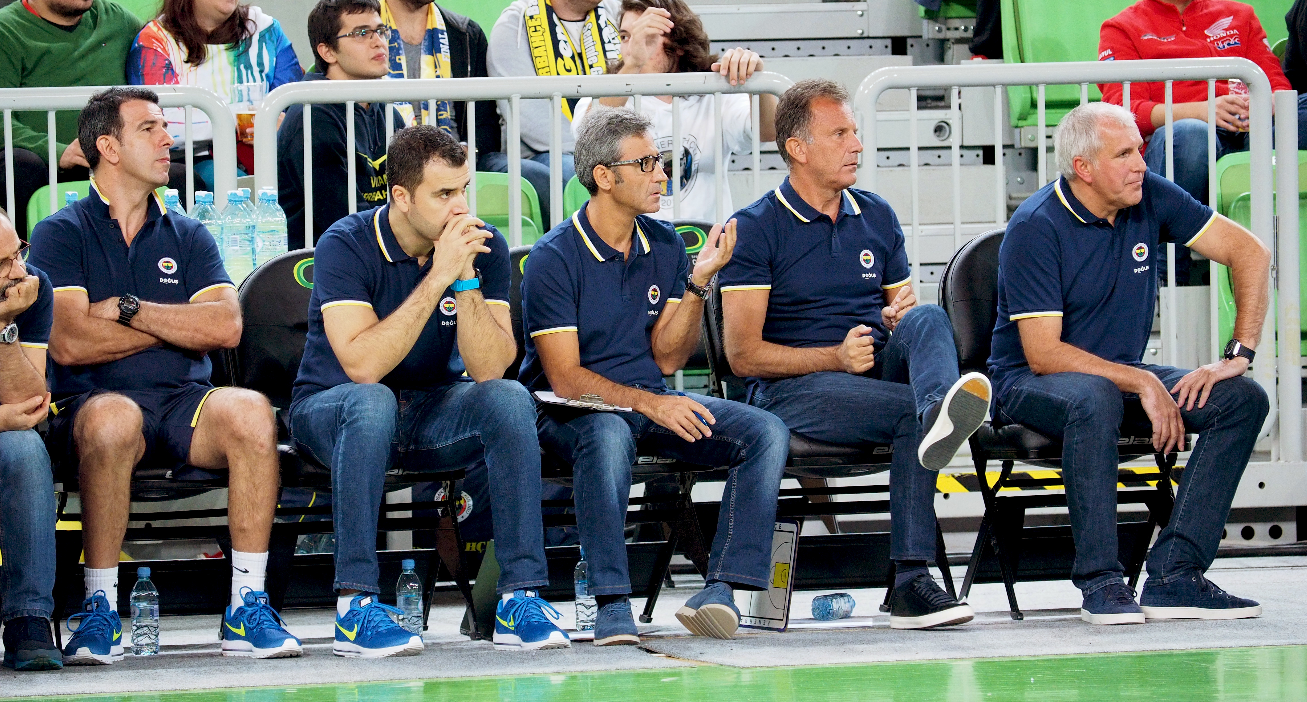 Fenerbahçe Men's Basketball trainers. From left: İlker Belgutay (Athletic trainer), Erdem Can (Assistant coach), Josep Maria Izquierdo (Assistant coach), Vladimir Androić (Assistant coach) and Željko Obradović (Head coach). September 2017 This photograph was taken with a Olympus E-M1.